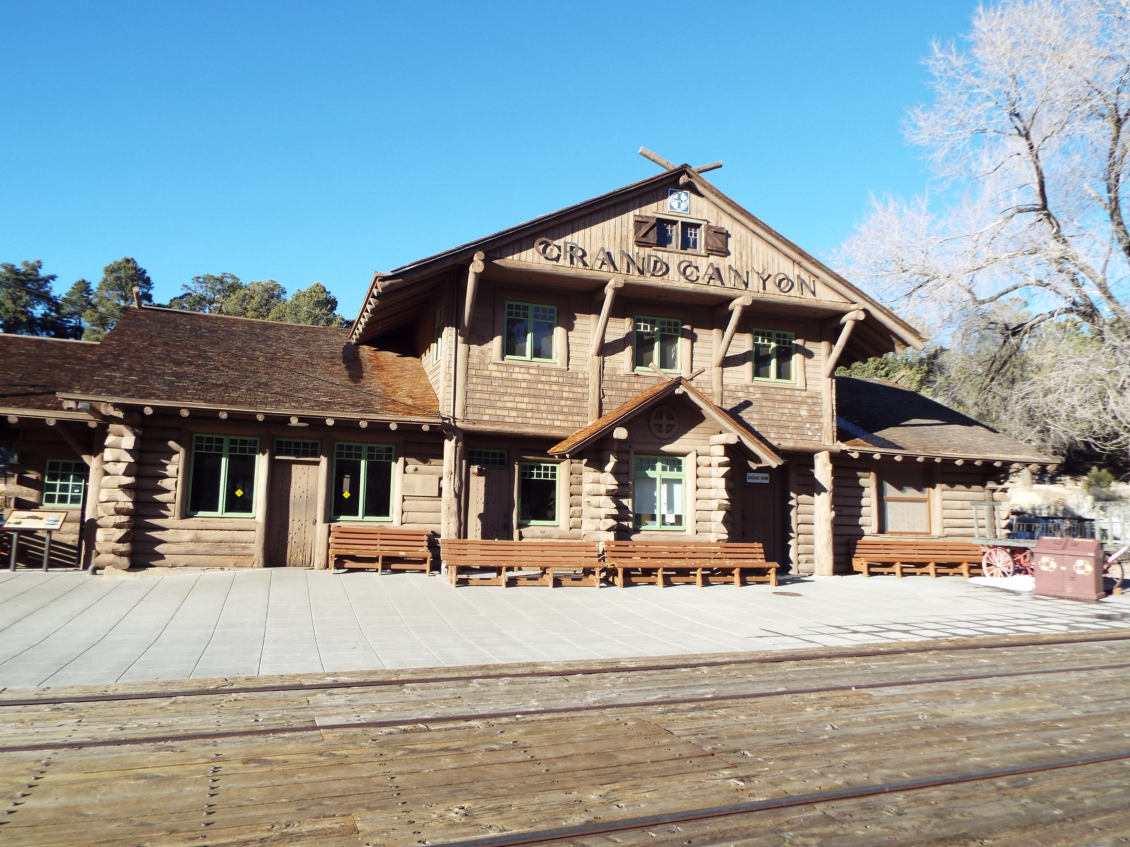 The Grand Canyon Railroad Station – the station was built in 1901 and is within the Grand Canyon Village Historic District. It is one of three remaining railroad depots in the United States built with logs as the primary material. It was listed in the National Register of Historic Places on September 6, 1974, reference #74000343. It was declared a National Historic Landmark on May 28, 1987.